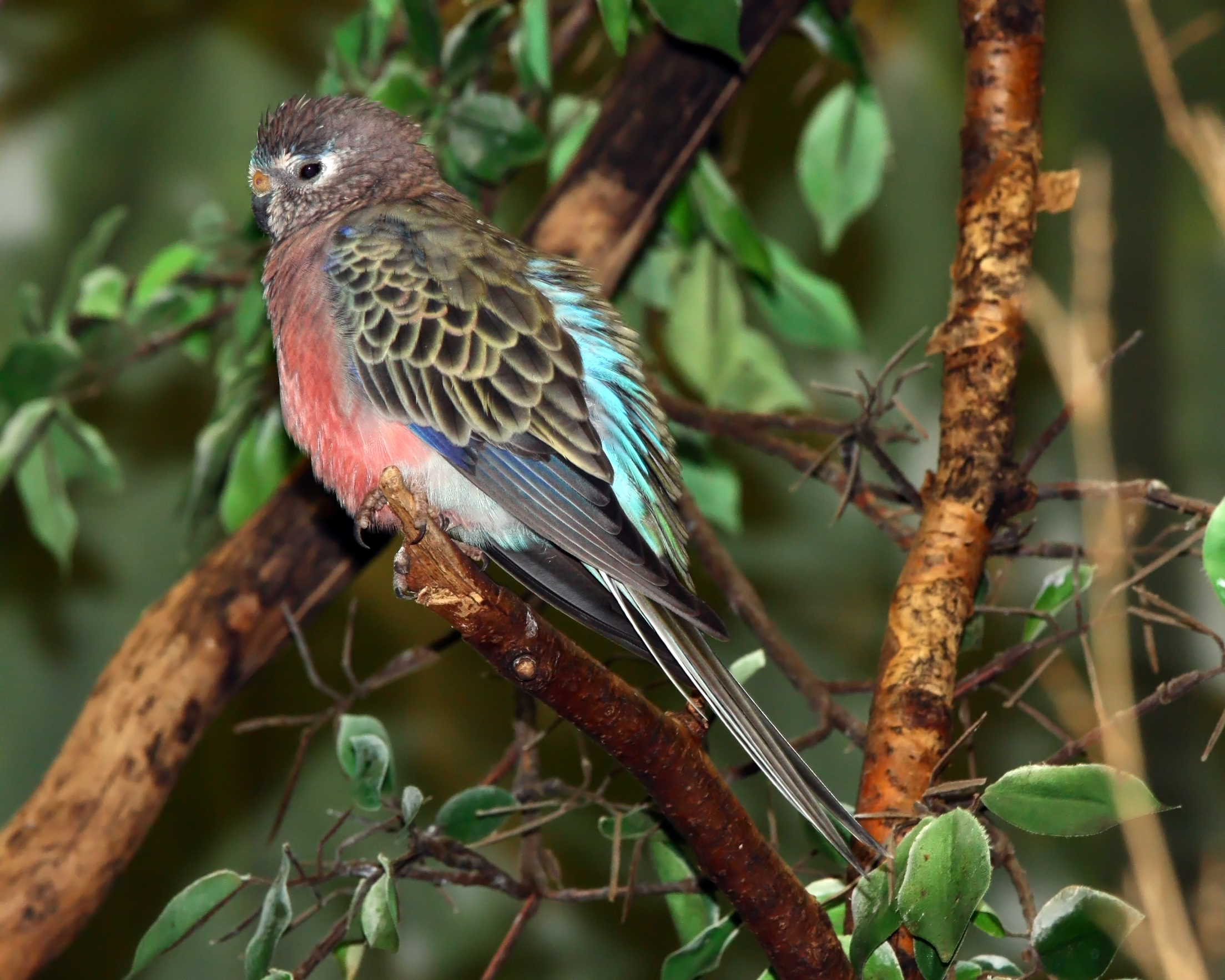 Bourke's Parrot - Neopsephotus bourkii taken at the Cincinnati Zoo and Botanical Gardens